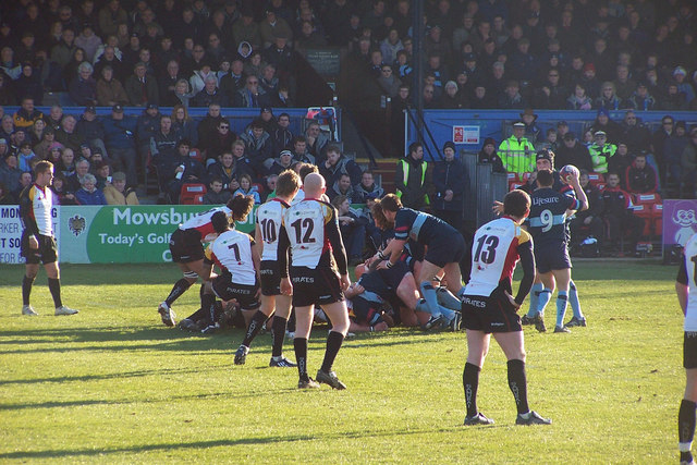 Bedford Blues in action Bedford playing Cornish Pirates. Don't let the sunshine fool you - it was freezing and Pirates won.